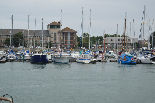 Weymouth Marina